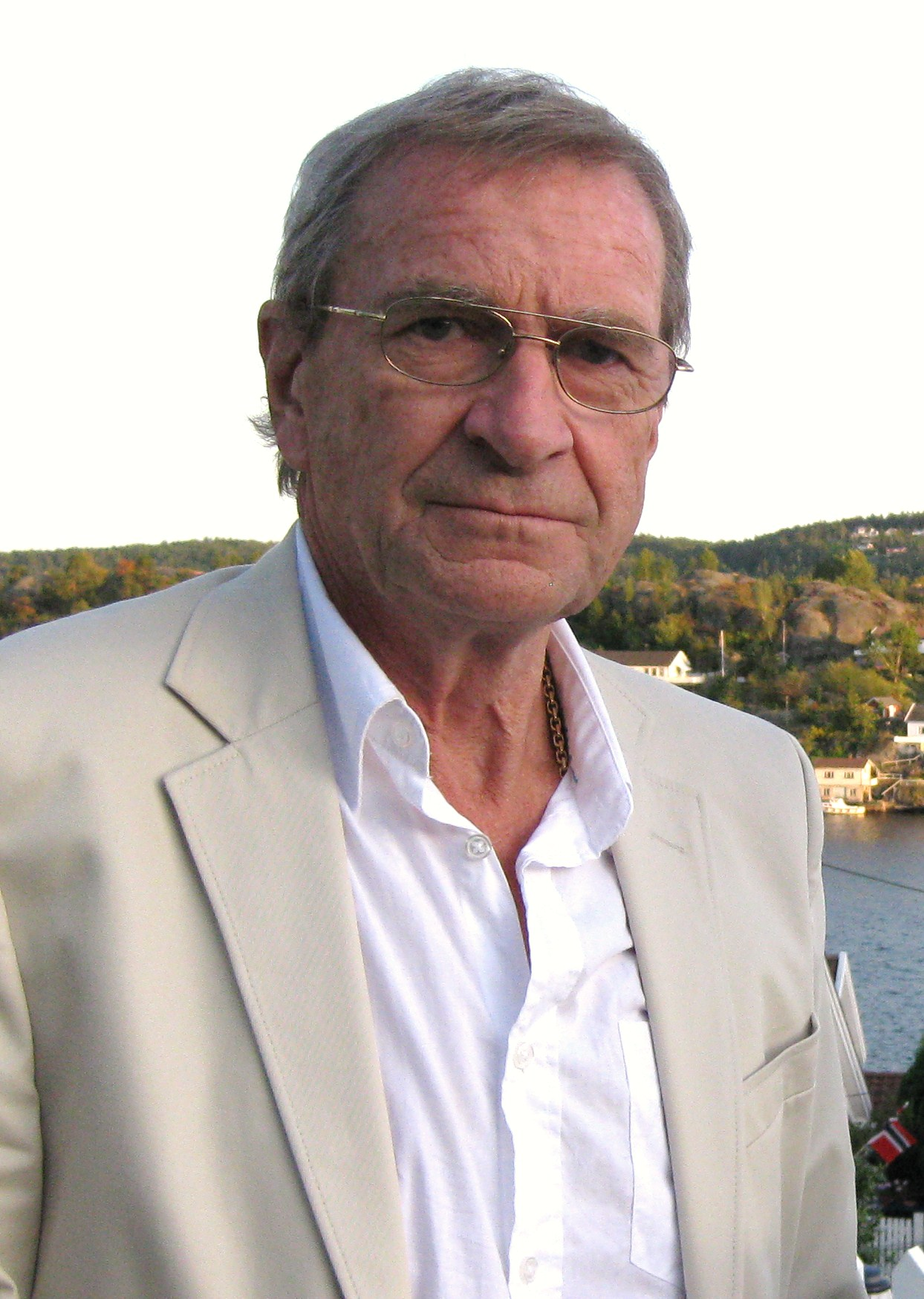 Tore Juell